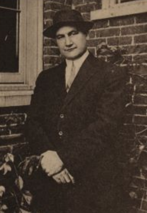 Coach McAvoy, Delaware